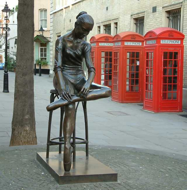 Young Dancer – bronze statue by Enzo Plazzotta of Royal ballerina Katie Pianoff Broad Court, London WC2, England – 240404. This is opposite the Royal Opera House and next to Bow Street Magistrates Court.